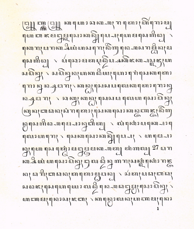 a page from a Madurese book (Raden Segara) in Javanese script